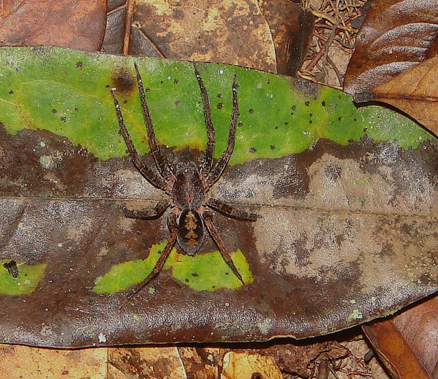 This young spider in Amacayacu Park, Colombia, has the markings of the venomous Brazilian Wandering Spider, but may be some harmless species masquerading as one.